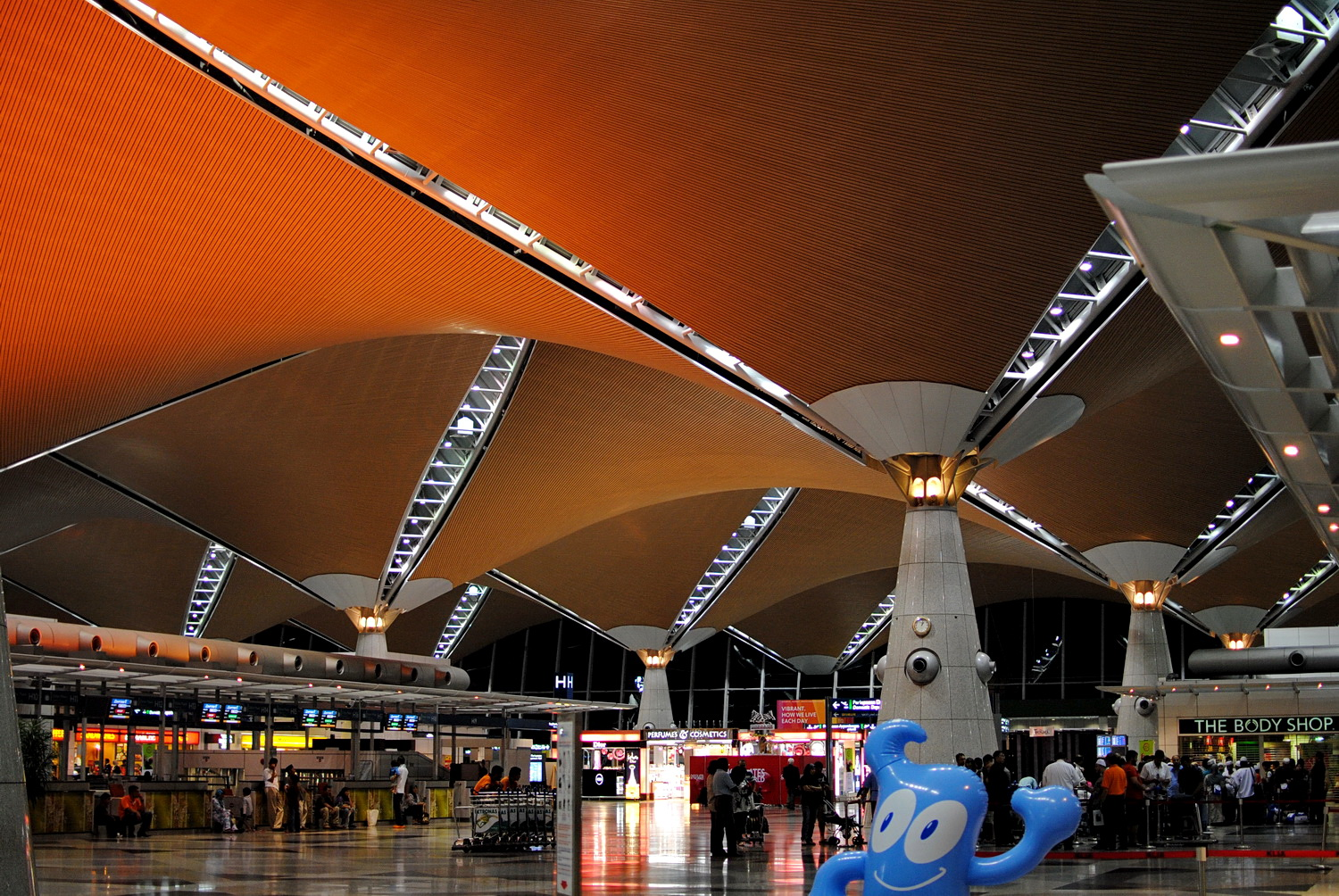 A view of the KLIA main terminal via Flickr